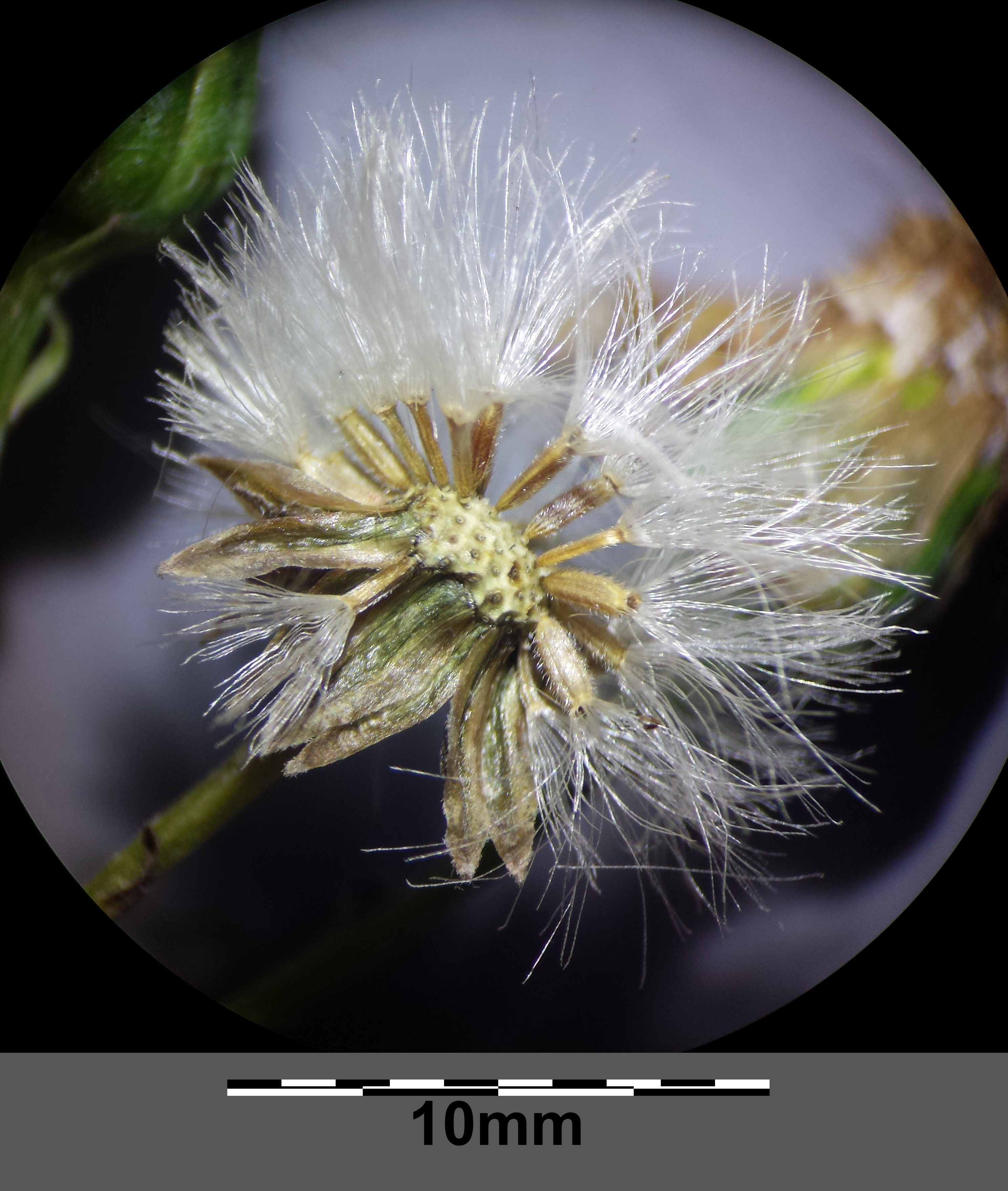 Flower basket with fruits Taxonym: Senecio erucifolius ss Fischer et al. EfÖLS 2008 ISBN 978-3-85474-187-9 Location: next to Dernberg, Nappersdorf-Kammersdorf, district Hollabrunn, Lower Austria - ca. 260 m ü. A. Habitat: semi-dry grassland